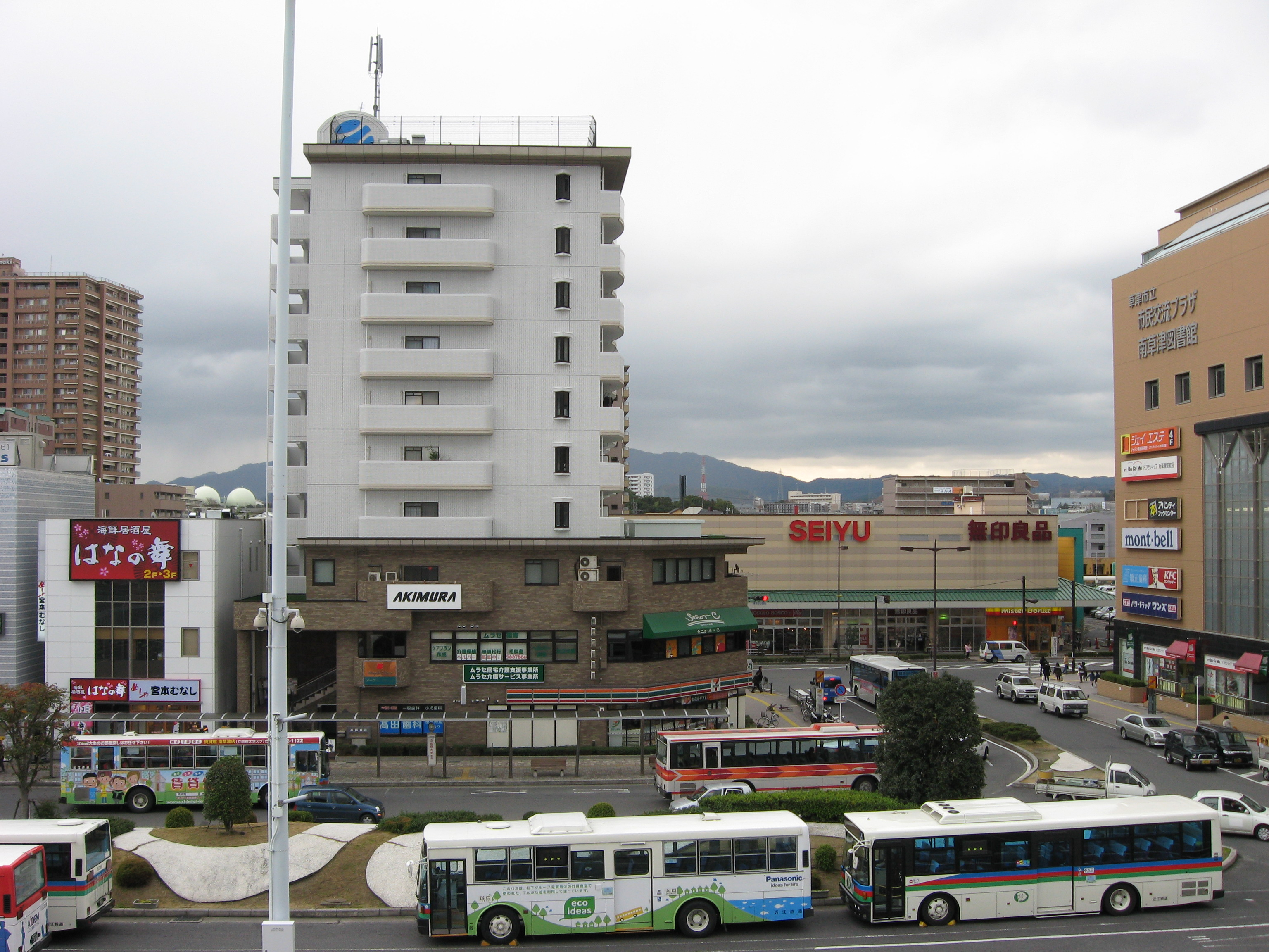 This photograph is the one that the town was looked about from the JR Minami-Kusatsu Station eastward exit.